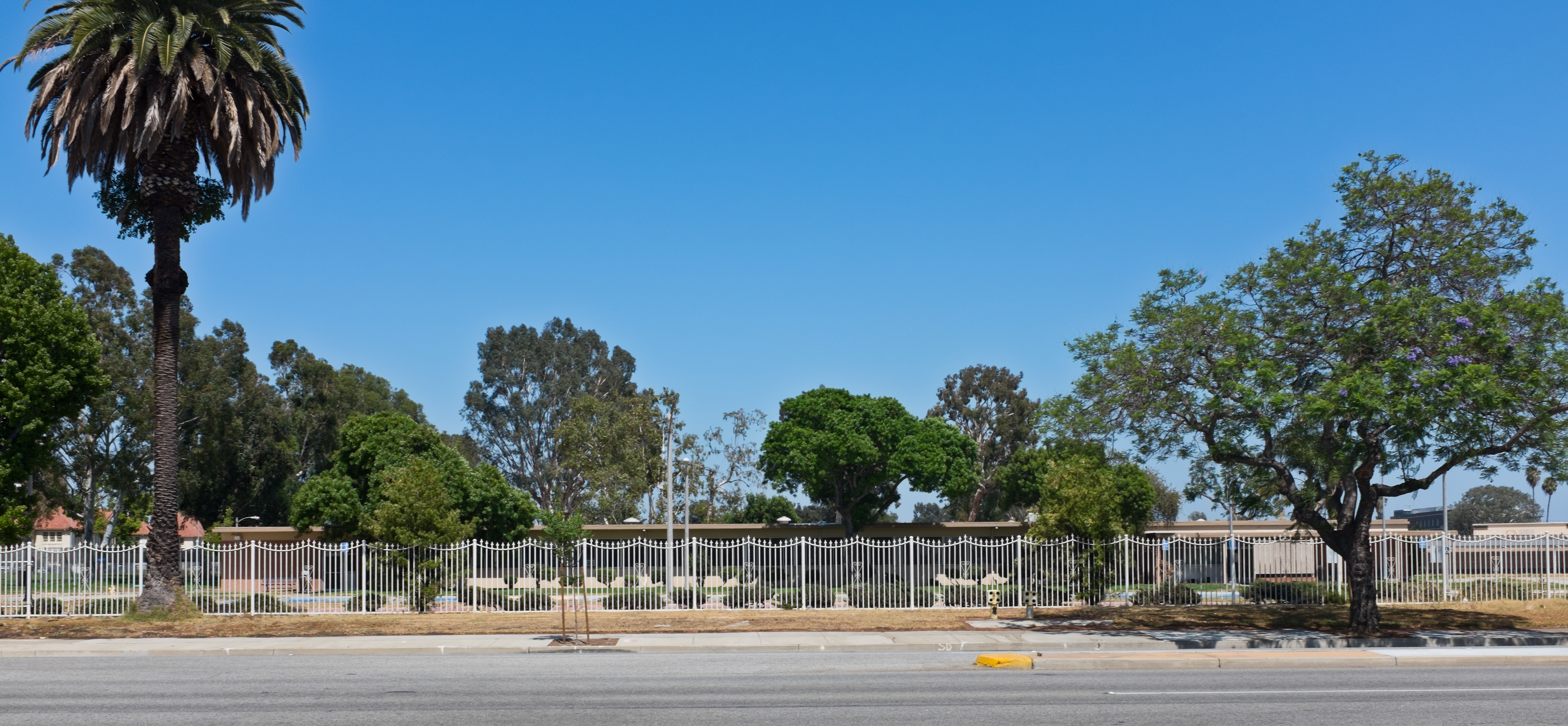 The Metropolitan Psychiatric Hospital viewed from Norwalk Bvld, in Norwalk, California USA